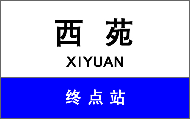 The simulation draw of the board of No.53 Station of Beijing Subway. Drew based on related data and reality.